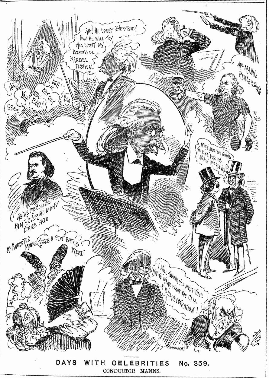 Caricatures of August Manns